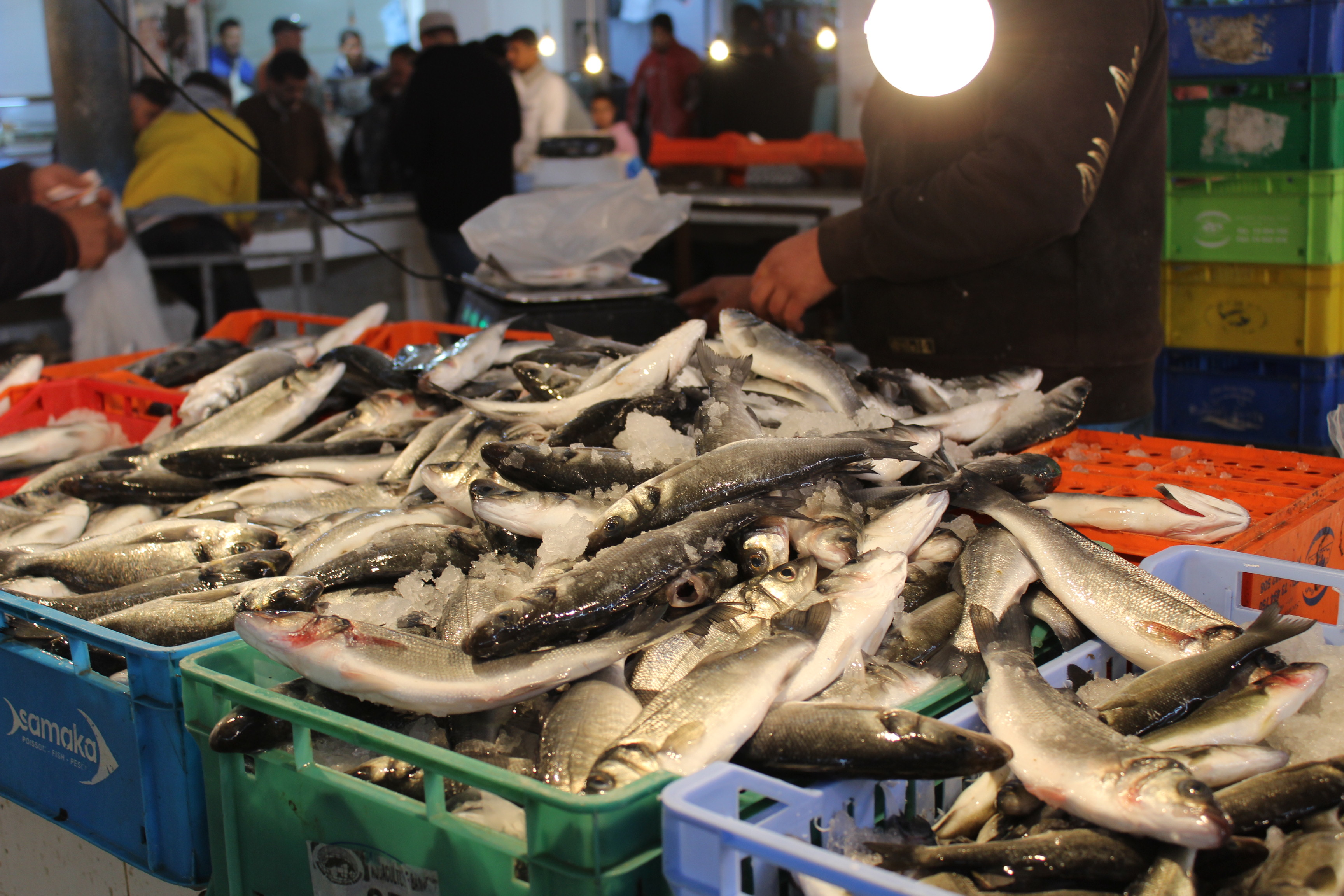 Tunisian market of fish in Monastir This is an image of food from Tunisia